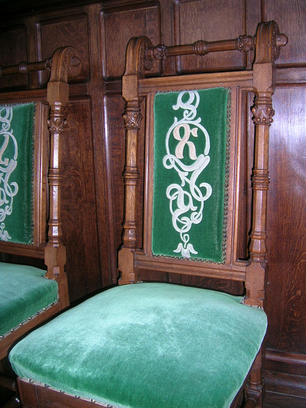 Detail of a chair in Abbadia castle, Hendaye (France)